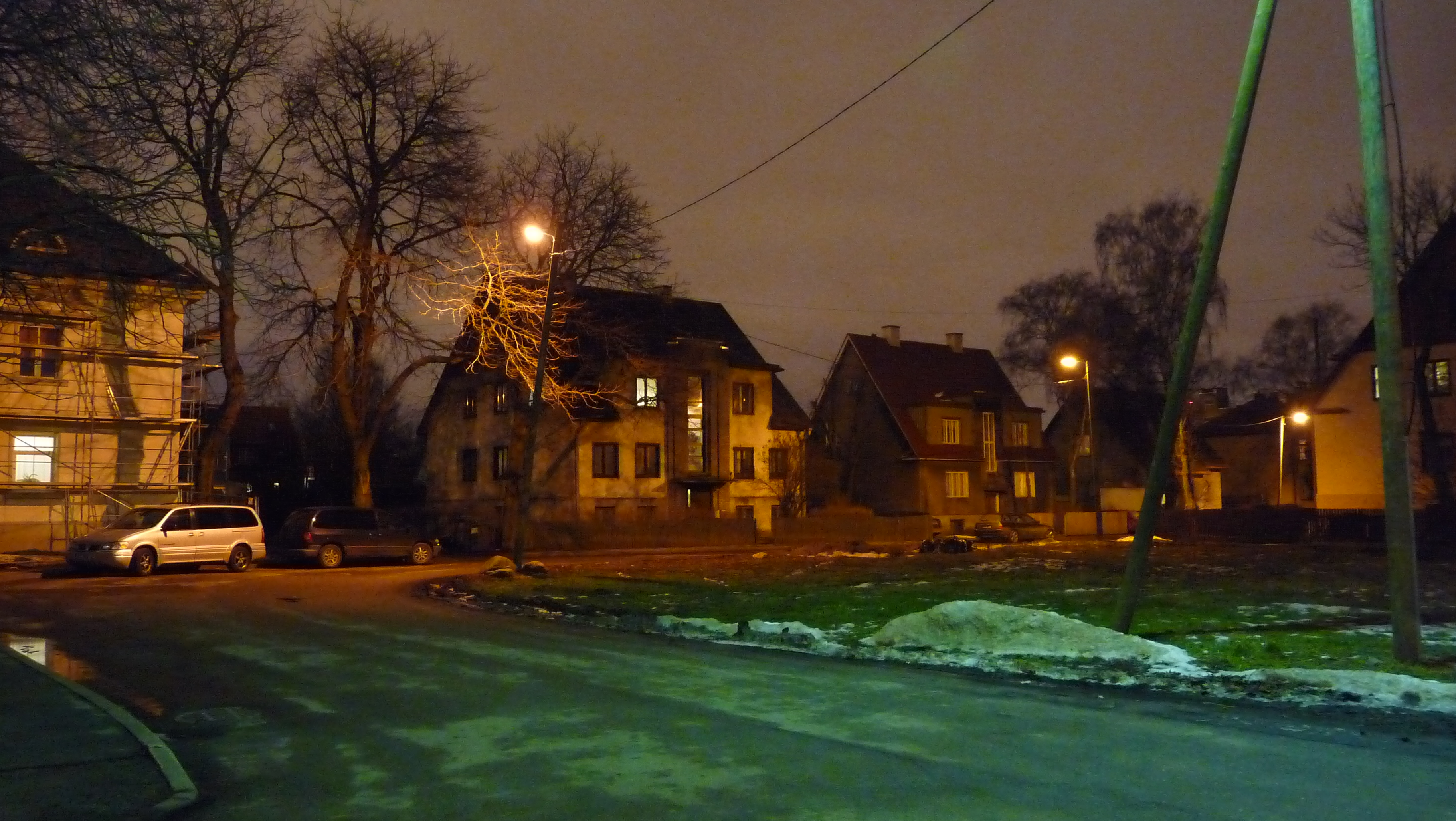 Orase street in Tallinn, Estonia